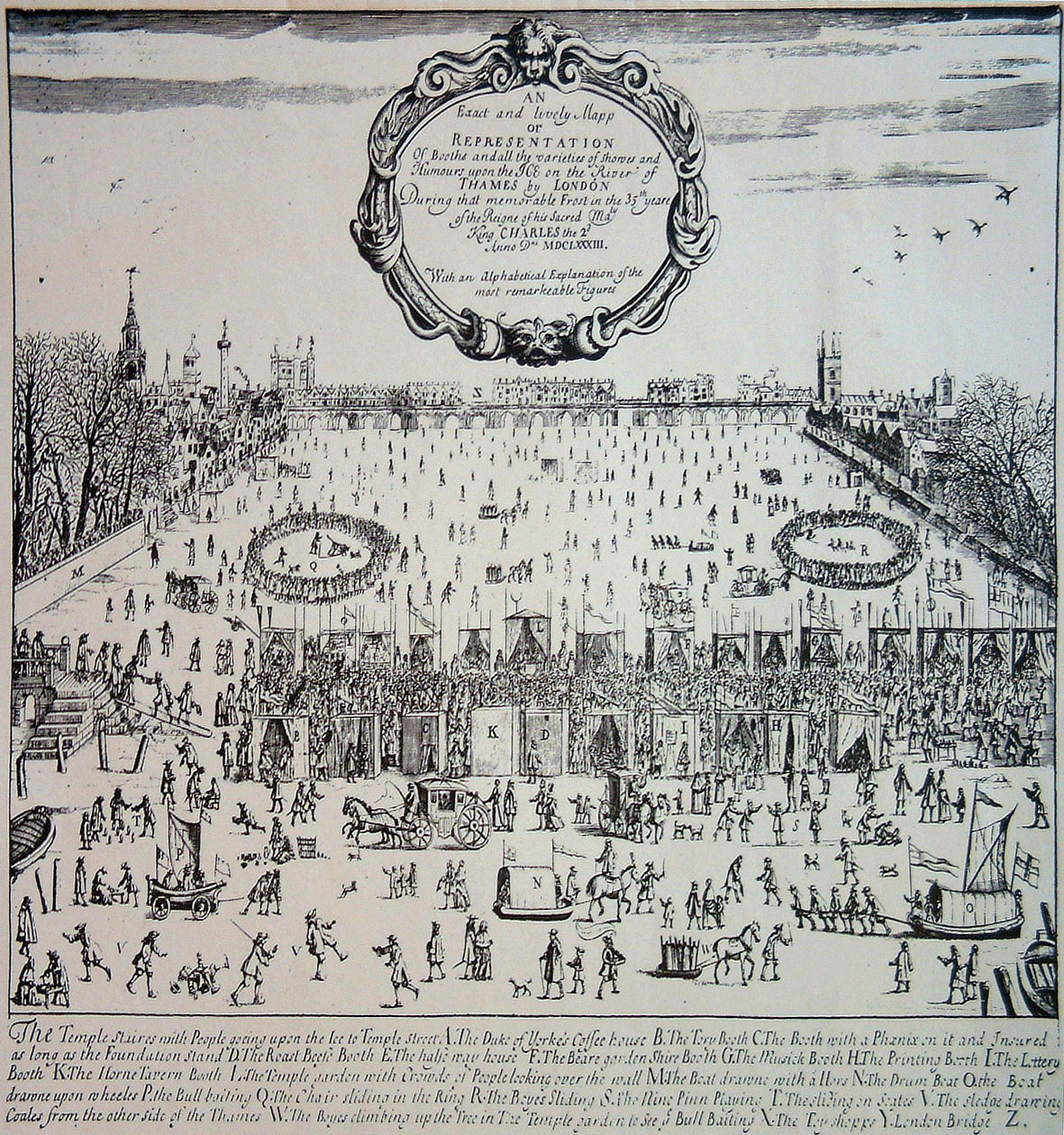 The Frost Fair of 1683. Text at top: AN Exact and lively Mapp or REPRESENTATION Of Booths and all the varieties of showes and Humours upon the ICE on the River of THAMES by LONDON During that memorable Frost in the 35th yeare of the Reigne of his Sacred Maty King CHARLES the 2d ANNO Dni MDCLXXXIII. With an Alphabetical Explanation of the most remarkeable Figures Text at bottom: The Temple Staires with People goeing upon the Ice to Temple Street A.The Duke of Yorke's Coffee house B.The Tory Booth C.The Booth with a Phoenix on it and Insured as long as the Foundation Stand D.The Roast Beefe Booth E.The halfe way house F.The Beare garden Shire Booth G.The Musick Booth H.The Printing Booth I.The Lottery Booth K.The Horne Tavern Booth L.The Temple garden with Crowds of People looking over the wall M.The Boat drawne with a Hors N.The Drum Boat O.the Boat drawne upon wheeles P.the Bull baiting Q.The Chair sliding in the Ring R.The Boyes Sliding S.The Nine Pinn Playing T.The sliding on Scates V.The sledge drawing Coales from the other side of the Thames W.The Boyes climbing upon the Tree in the Temple garden to see ye Bull Baiting X.The Toy Shopps Y.London Bridge Z. Source for text: visual inspection, and verified from Bentley's Miscellany, Volume 9 by Charles Dickens, William Harrison Ainsworth, Albert Smith; publisher: Richard Bentley; year: 1841; page 133, footnote 1.